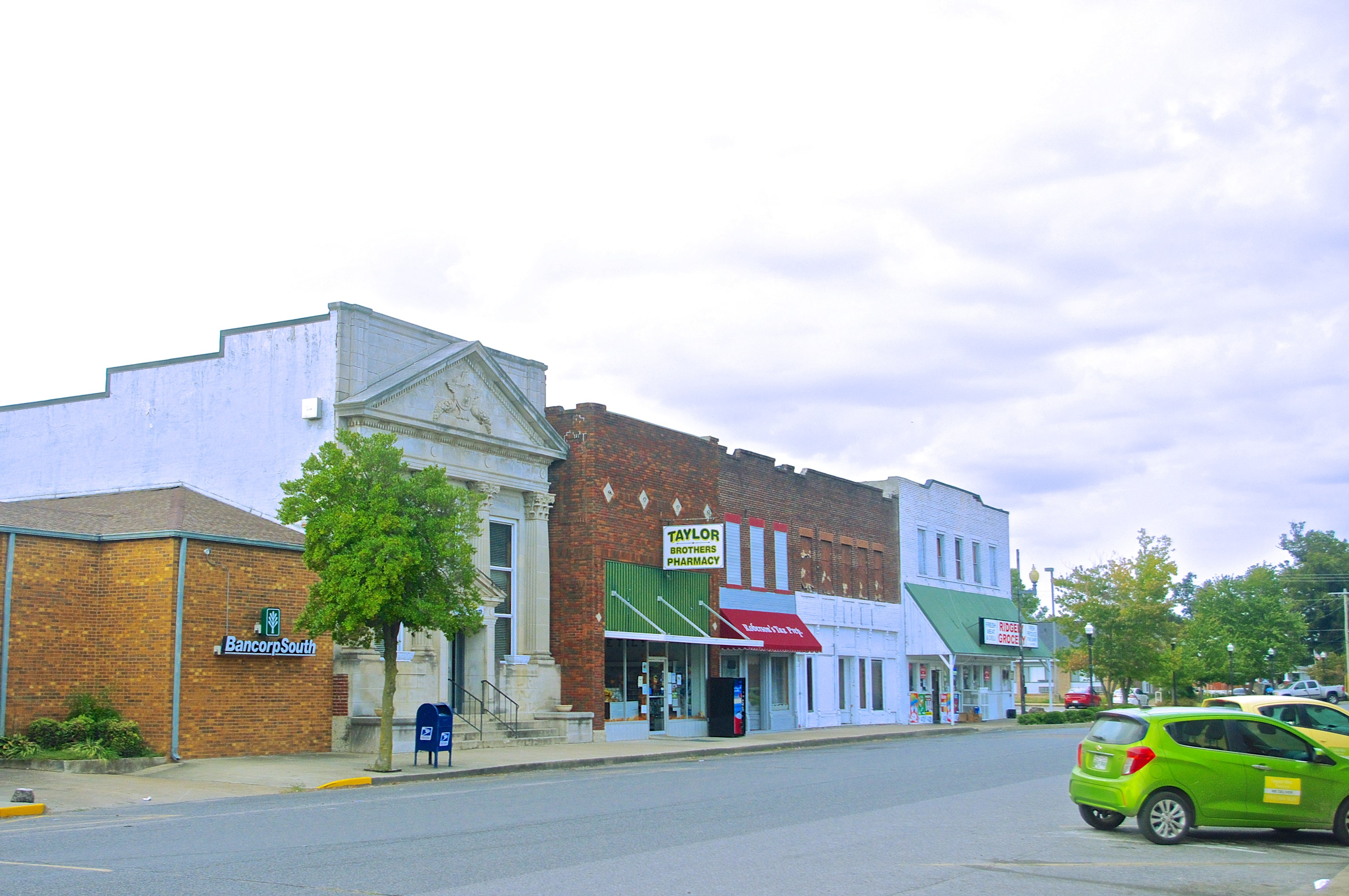 Buildings along Main Street in Ridgely, Tennessee, United States.